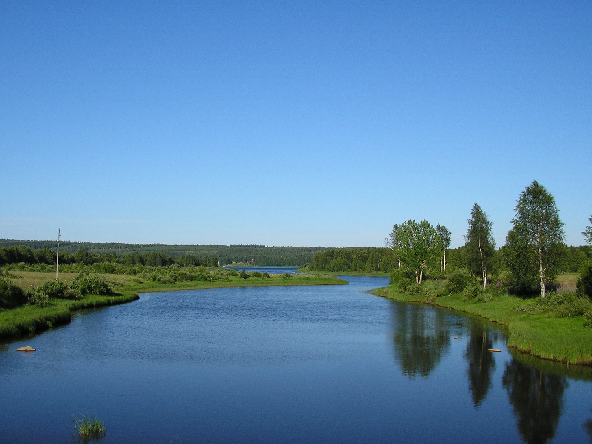 KankhaanrantaTornionväylä